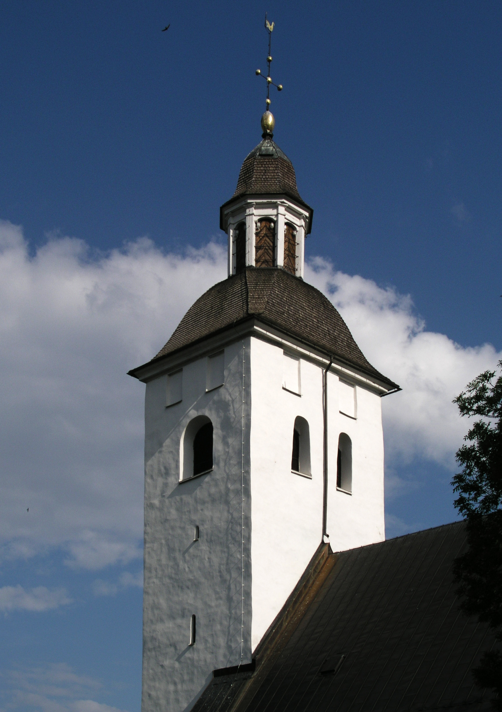 Hälsingtuna church, Diocese of Uppsala, Hudiksvalls kommun. Church tower.